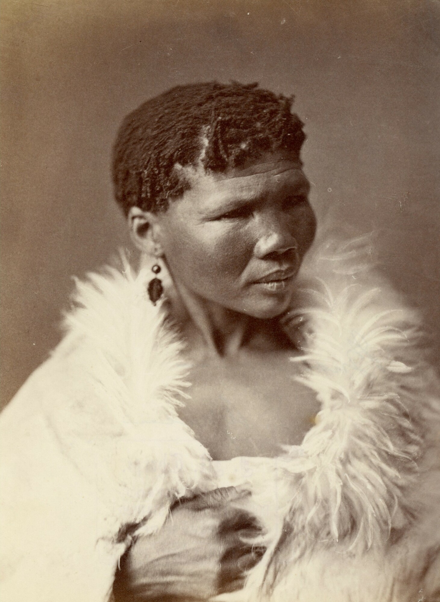 !Kweiten-ta //ken (also known as Rachel or Griet) taken in 1874.